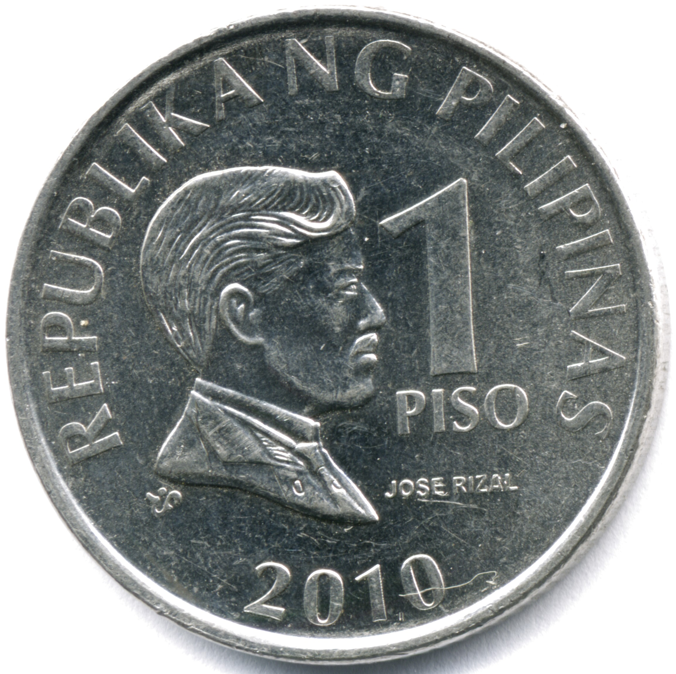 2010 Philippine one Piso obverse